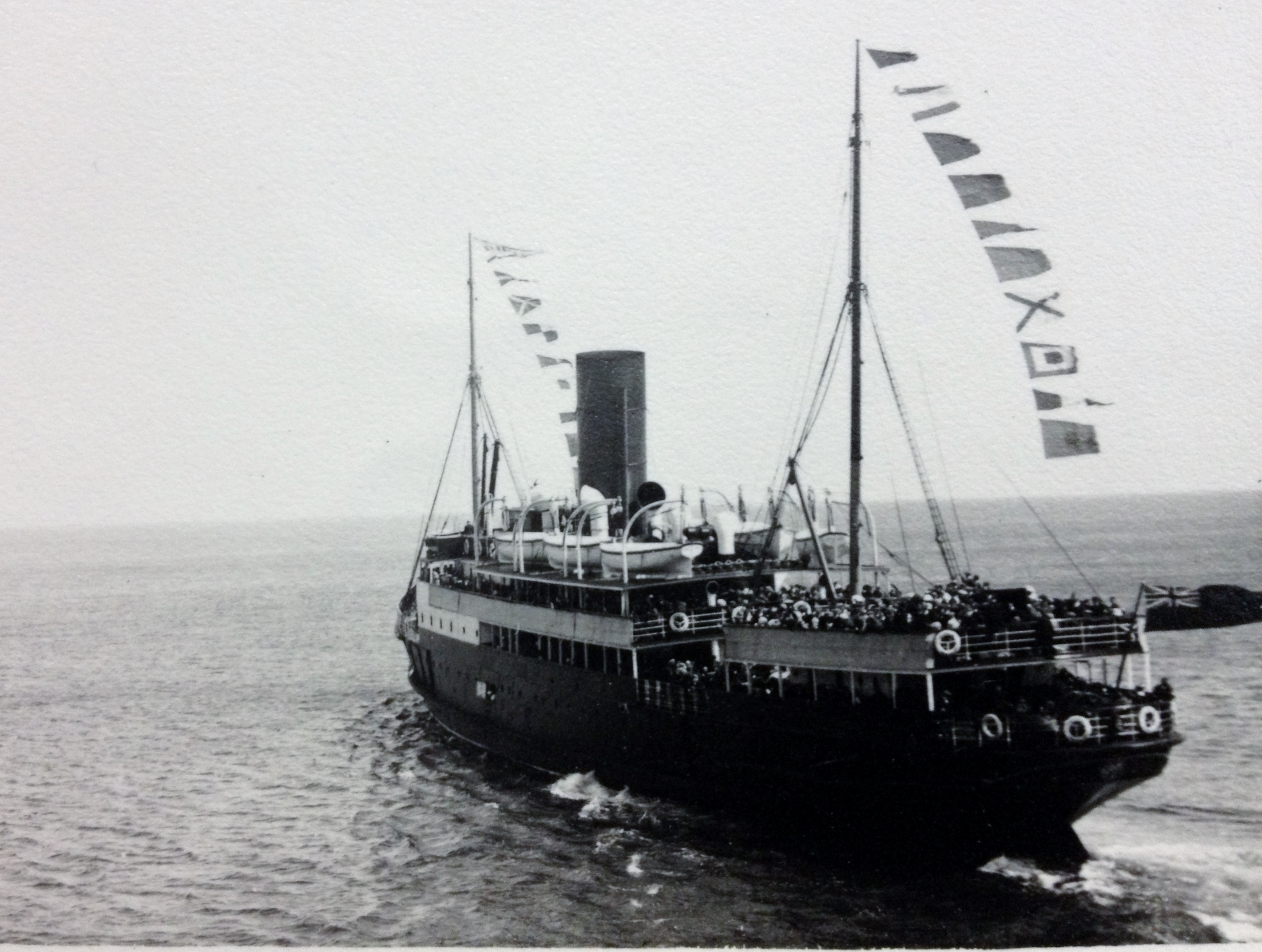 SS Sneafell pictured leaving Douglas.